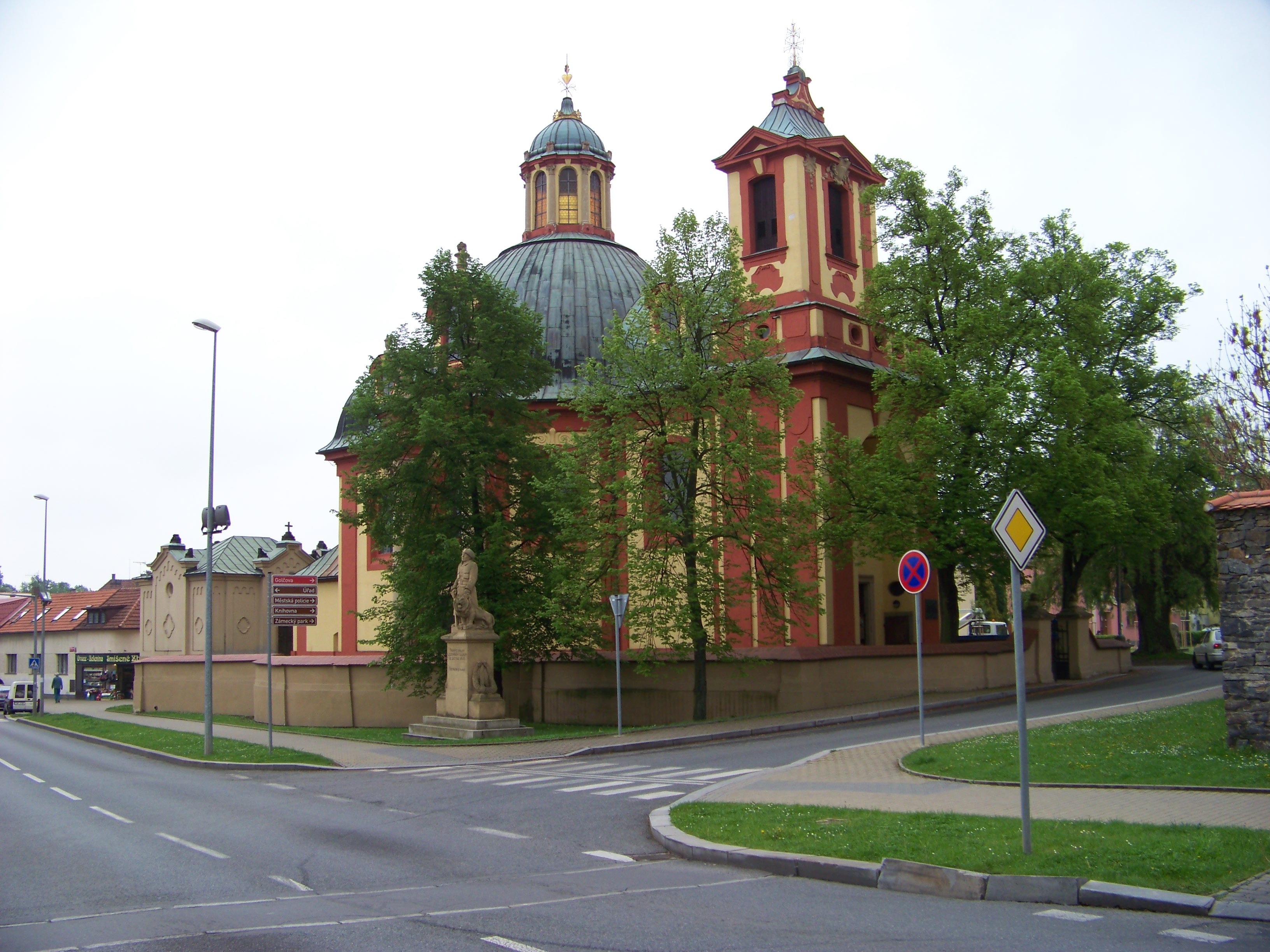 Prague-Kunratice, Czech Republic. K Libuši street, church of Saint James the Greater.